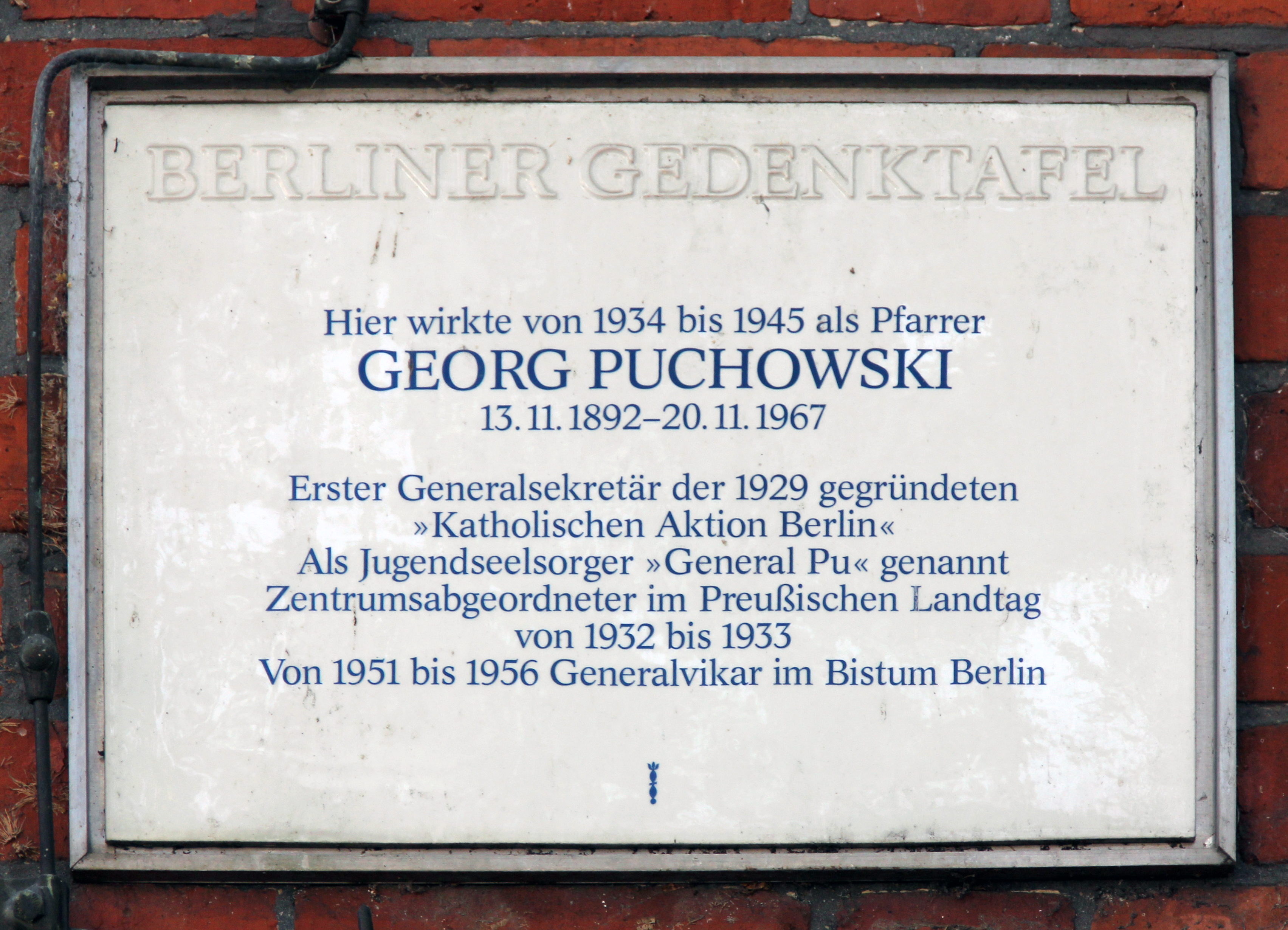 Berlin memorial plaque, Georg Puchowski, Bellermannstraße 91, Berlin-Gesundbrunnen, Germany